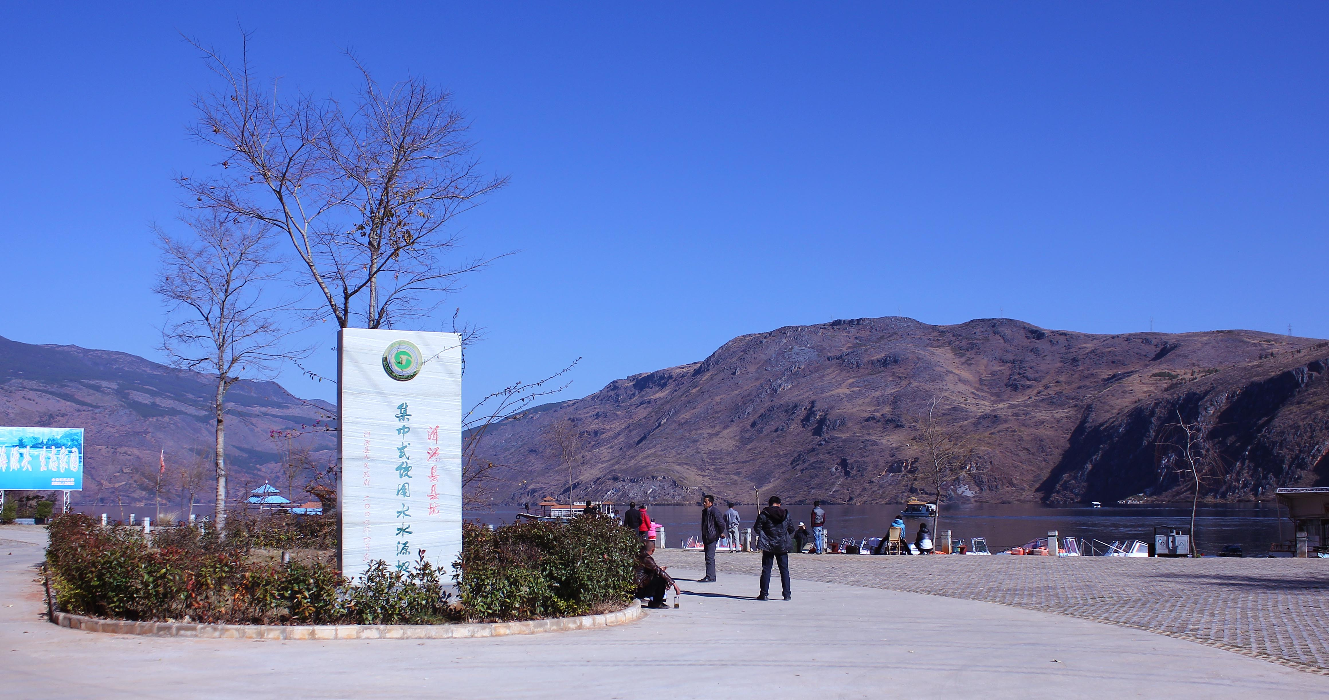 Cibi Lake，Eryuan County，China.